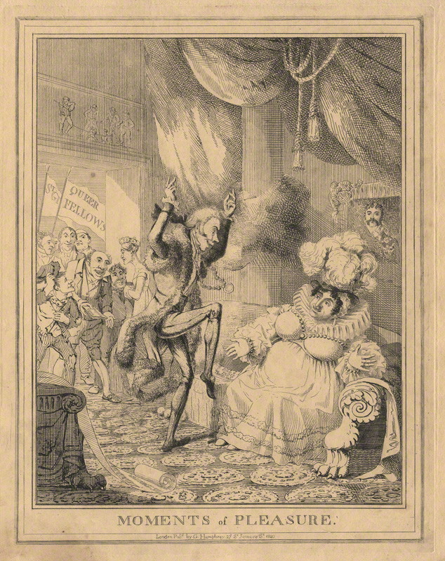 Moments of Pleasure (Lady Anne Hamilton; Sir Matthew Wood, 1st Bt; Caroline Amelia Elizabeth of Brunswick attributed to Theodore Lane, published by George Humphrey, etching, published 1820